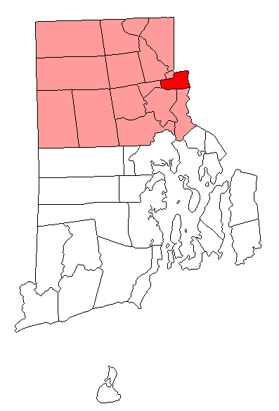 Pawtucket, RI